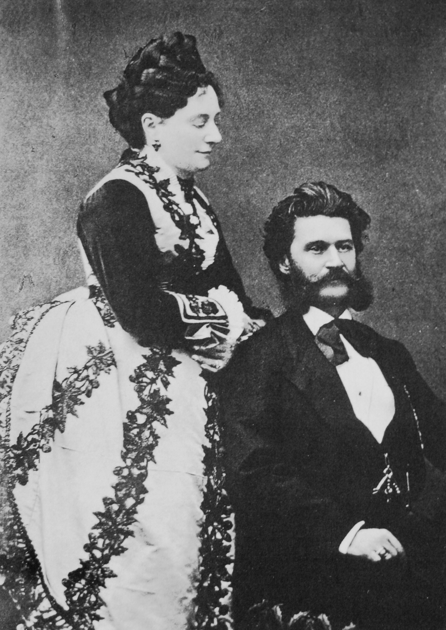 Jetty Treffz, first wife of Johann Strauss II